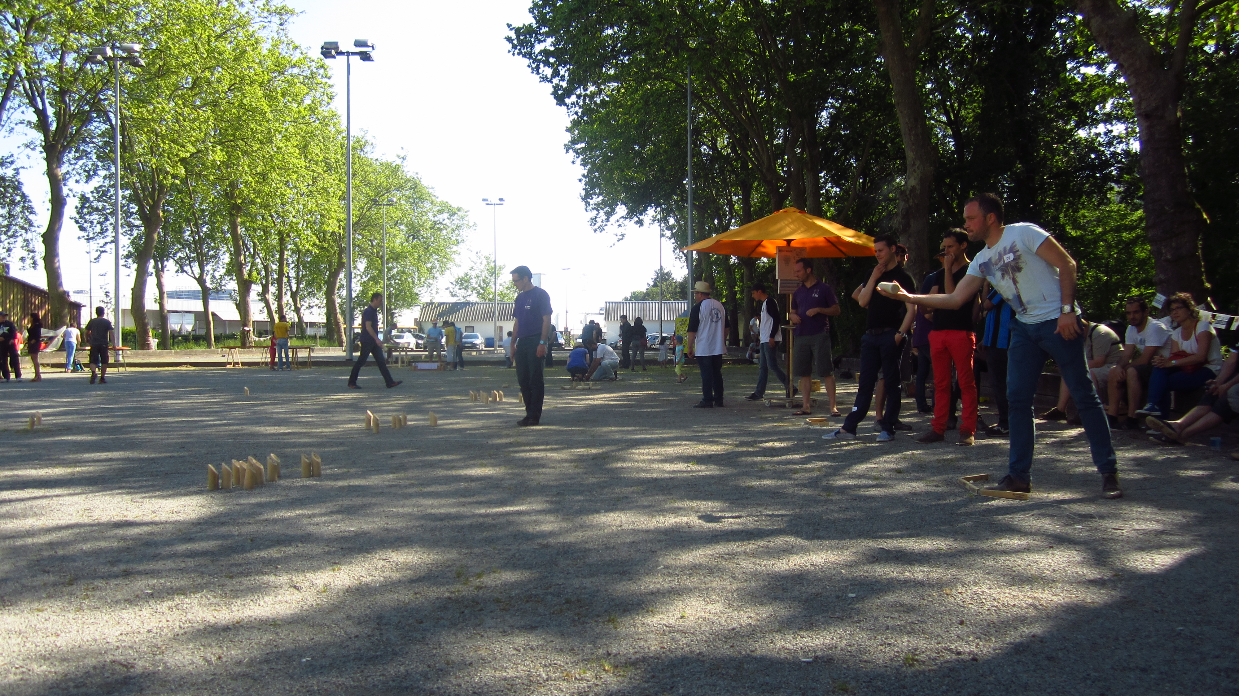 Mölkky competition in Nantes, France